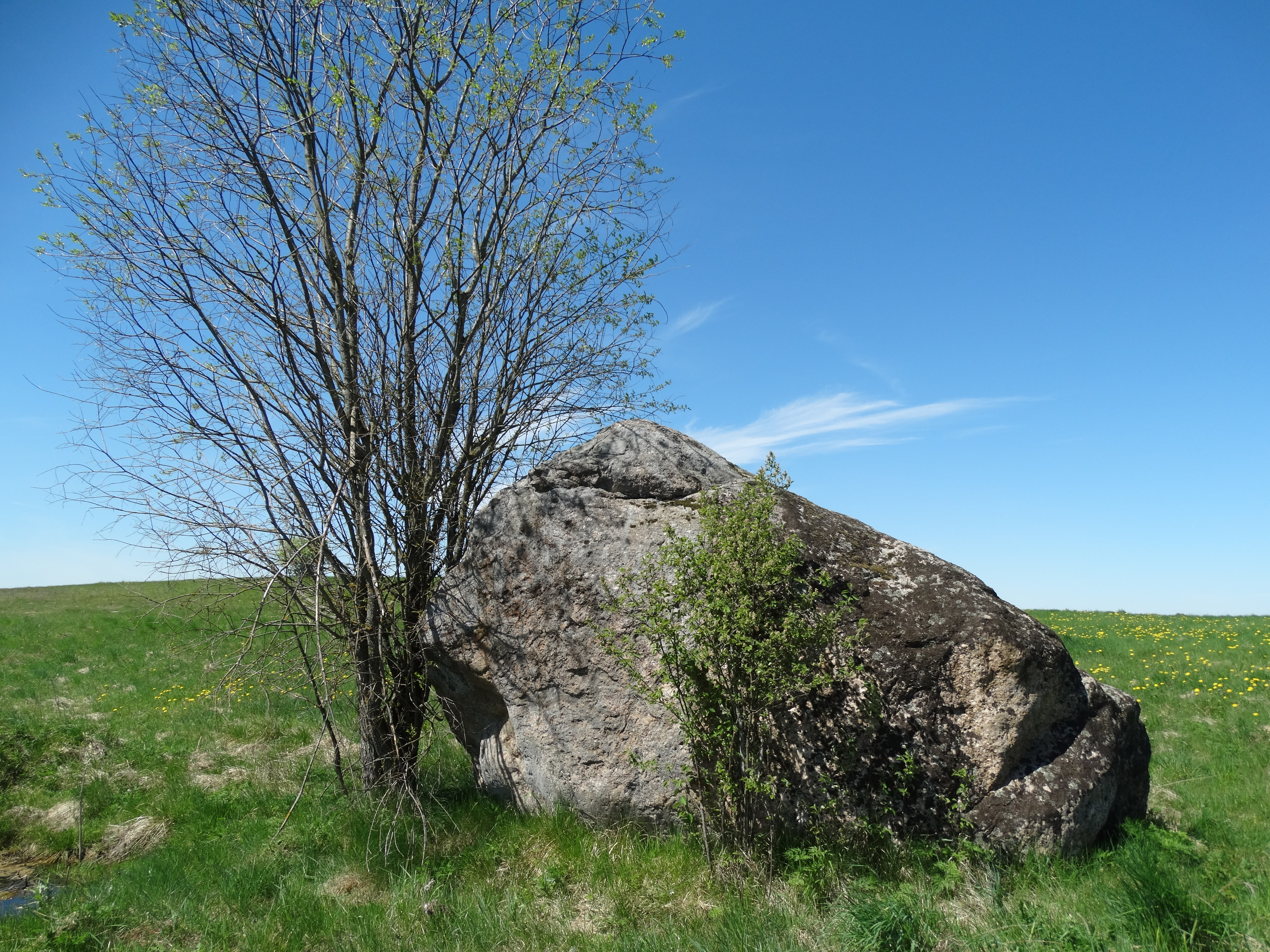 Stone in Mindučiai, Molėtai District, Lithuania